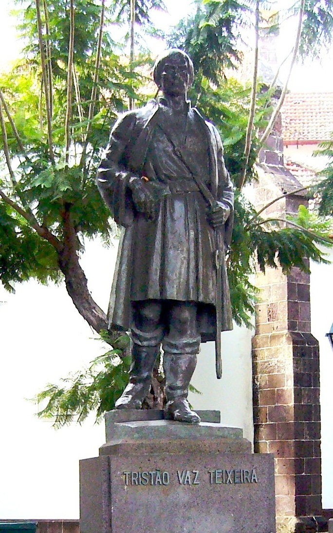 Statue of Tristăo Vaz Teixeira in Machico